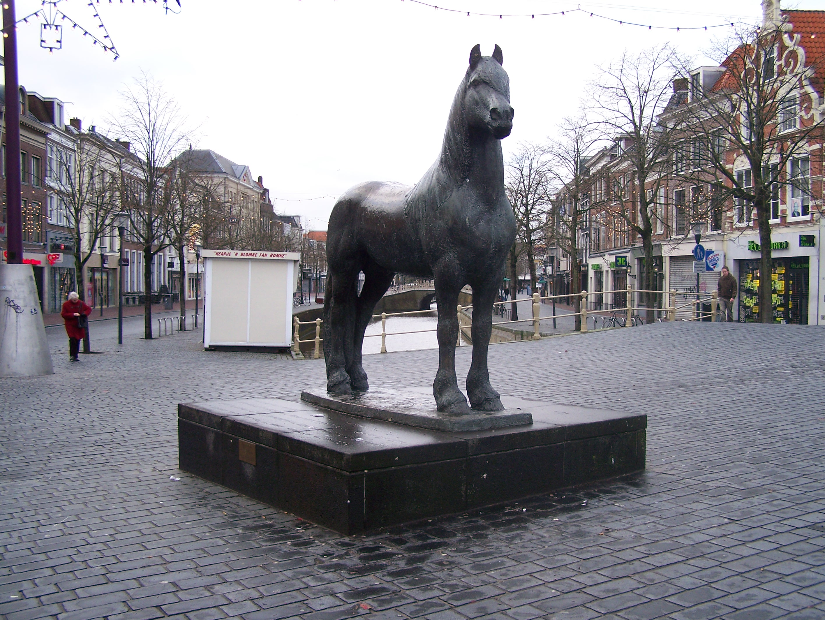 Ones beset, she kept her nobility Strength remained paired to courage and energy. You, Frisian and alien contemplates this wonder That strong pace, that faithfullness, that unbridled speed.